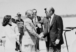 U.S. President Gerald Ford shakes hands with Louisiana Governor Edwin Edwards, 1976. The photo contact sheet, identified as A9424 by the White House Photographic Office (WHPO), is housed at the Gerald R. Ford Presidential Library, a branch of the National Archives and Records Administration (NARA). This file is a 200 dpi photo contact sheet having images from roll of film A9424 of the August 9, 1974 - January 20, 1977 Gerald R. Ford White House Photographic Office Series A0001-A9999 and B0001-B2886 photographs. The date on the photo contact sheet is the date the roll of film was processed, not necessarily the date the photographs were taken. See table below for additional details.